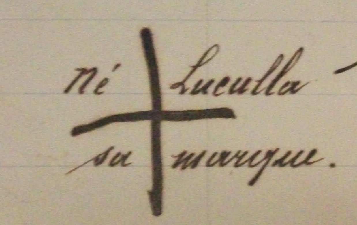 Signature of Ni Luculla, Congolese chieftan from the Boma area, signing over all his lands to the Congo Free State